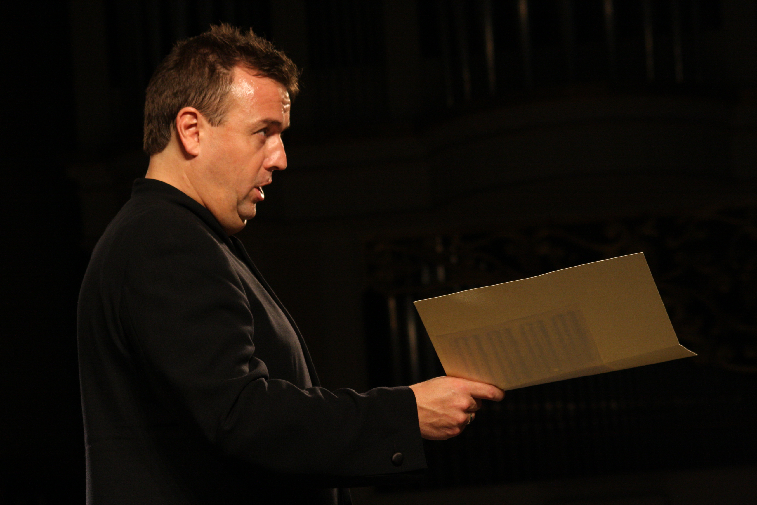 The English counter-tenor Andrew Watts performing at the MITO SettembreMusica music festival in 2008.